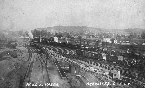 Photo postcard of the Wheeling and Lake Erie Railroad's Brewster, Ohio yards.